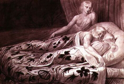 An illustration for William Blake's unpublished 1789 poem, Tiriel